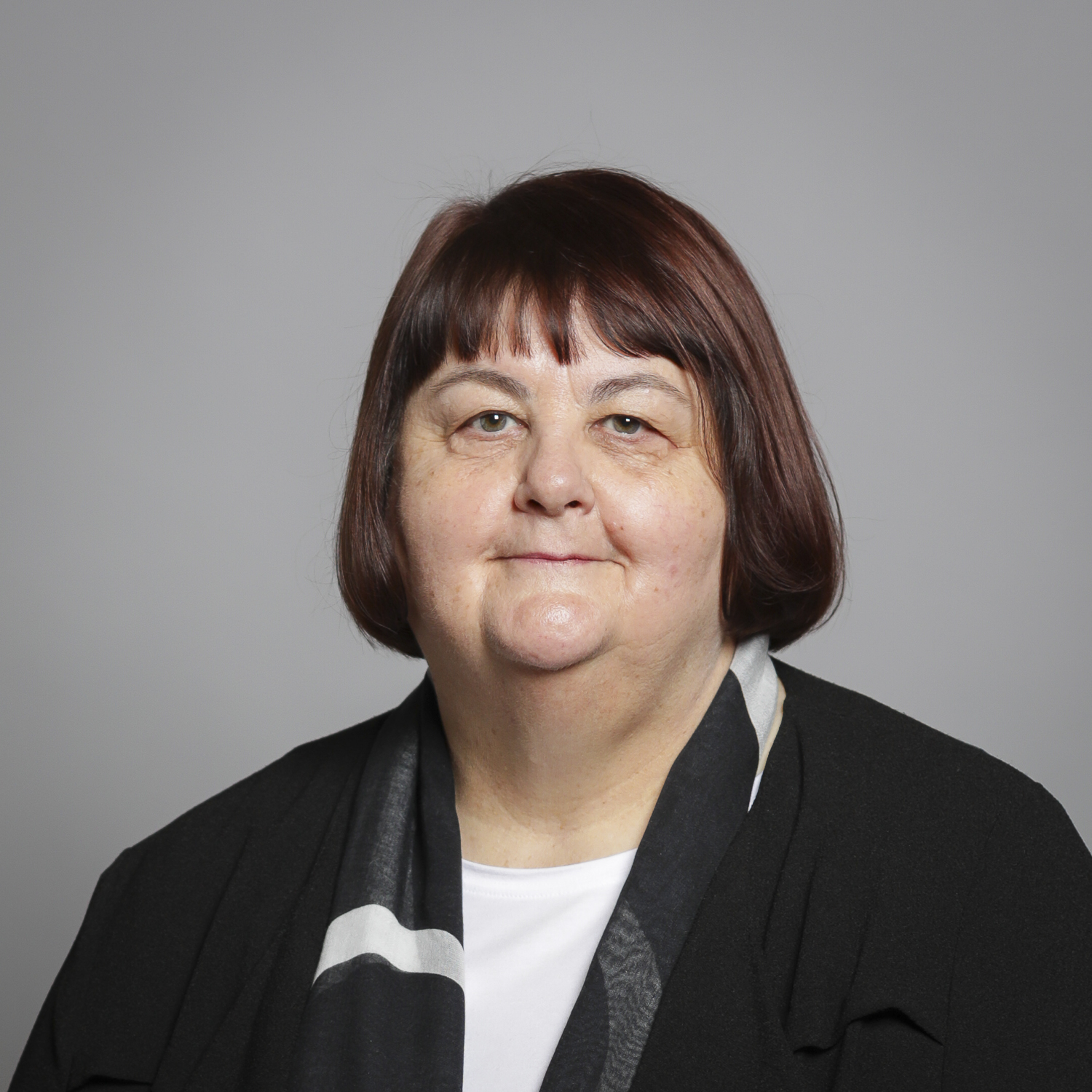 Official portrait of Baroness Wilcox of Newport 1×1 portrait of Baroness Wilcox of Newport